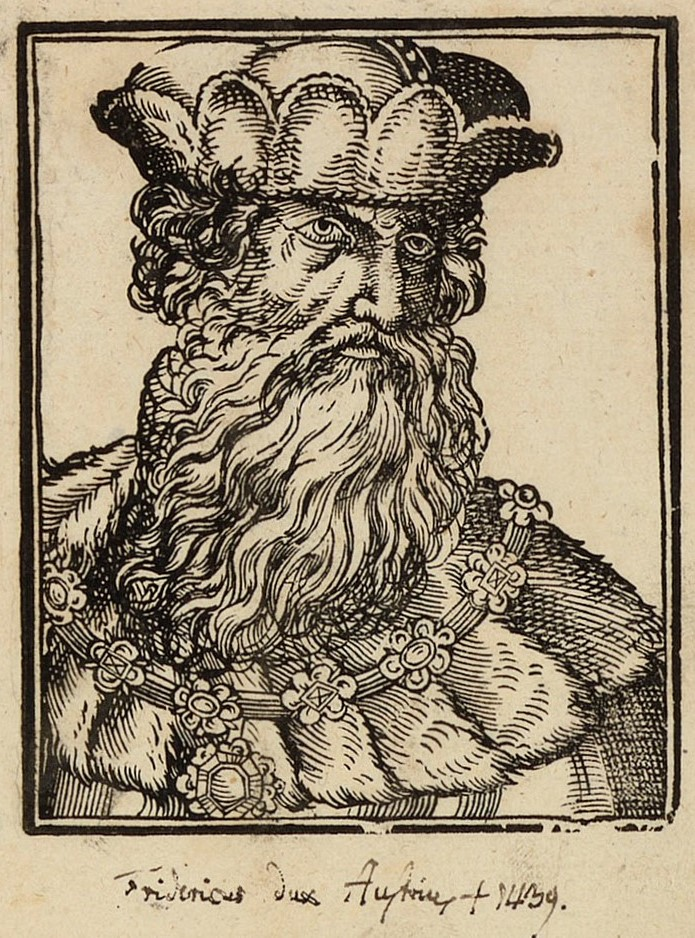 XVI xentury woodcut of Frederick IV, duke of Austria-Tyrol